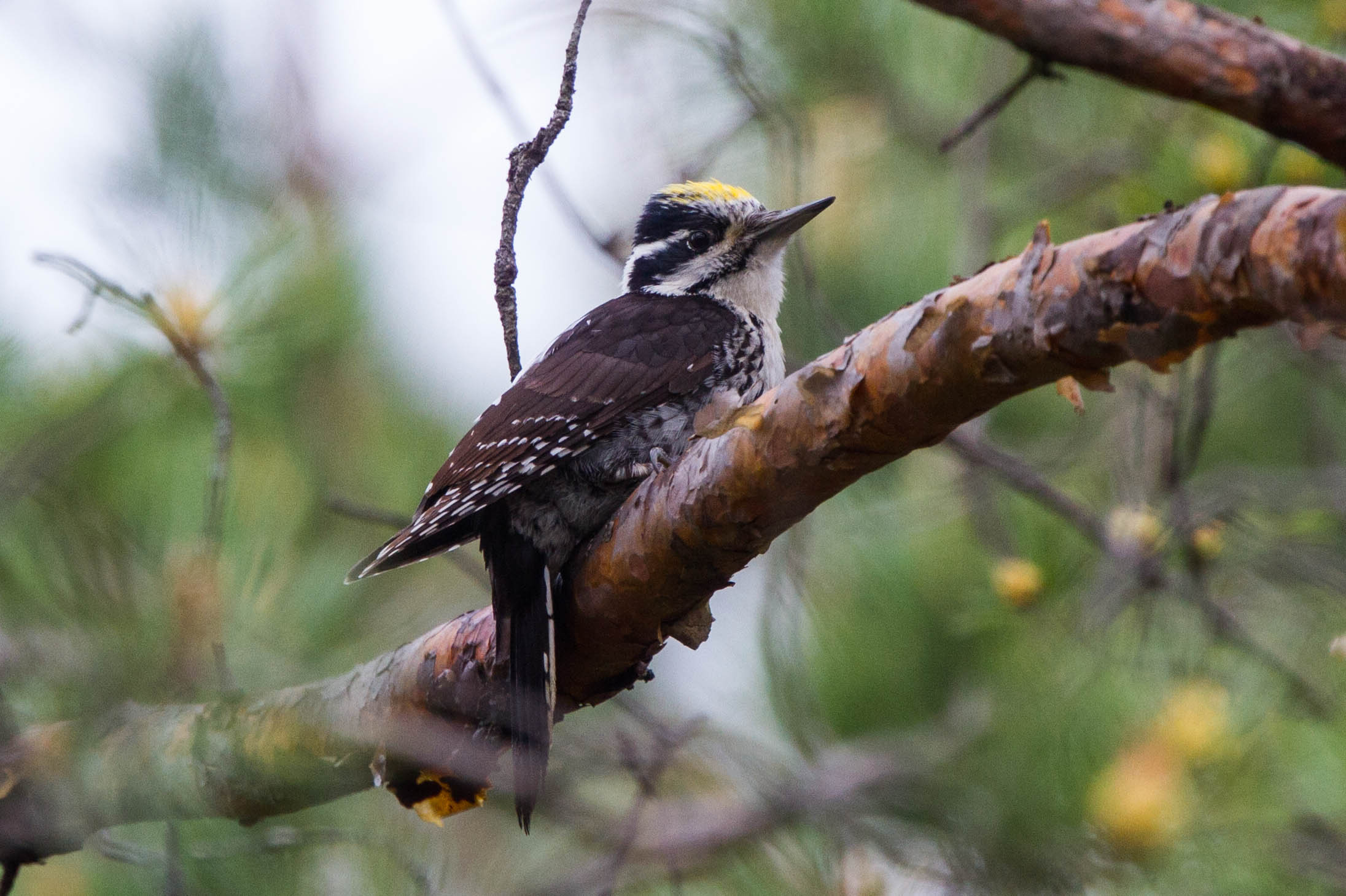 Eurasian Three-toed Woodpecker Picoides tridactylus, Belarus